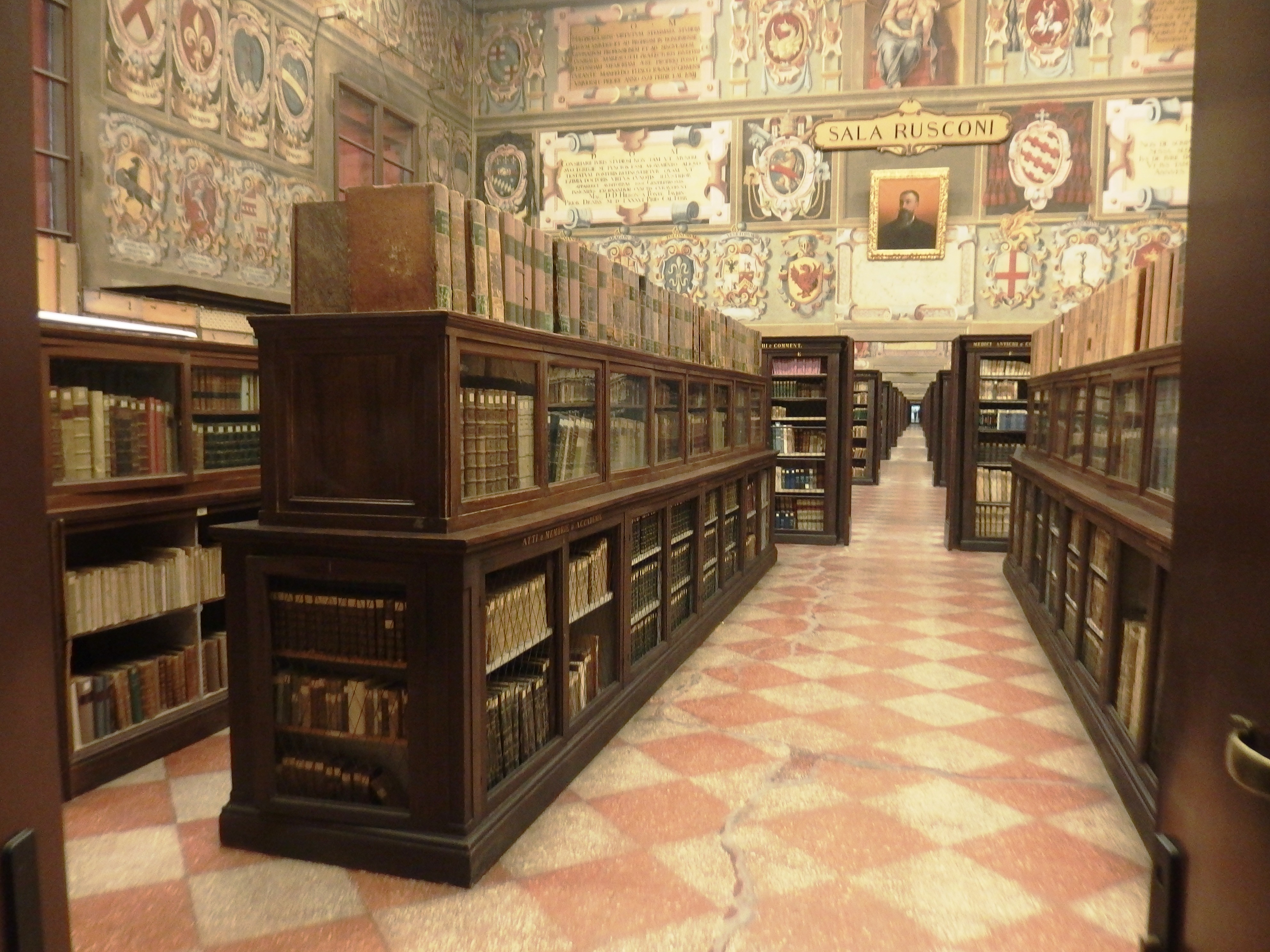 Bologna, Italy.